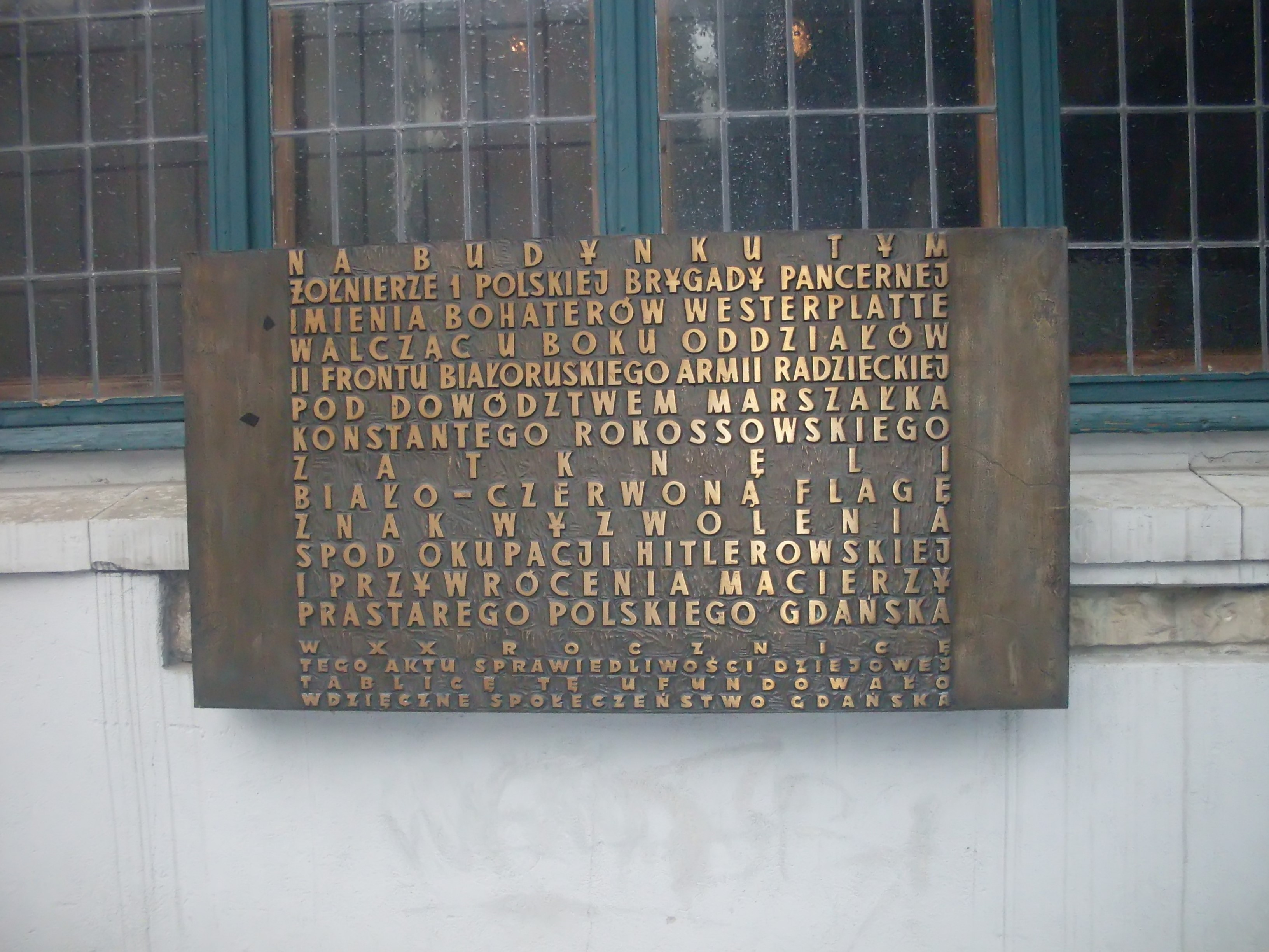 Plaque at Artus Coart in Gdańsk. On this building one stuck the flag of Poland by soldiers of the First Polish Armour-plated Brigade of the name of Heroes Westerplatte. This was the symbol of the return of the anciently Polish city to the Fatherland. Plaque to show in 1965 . During the twentieth anniversary of this event.